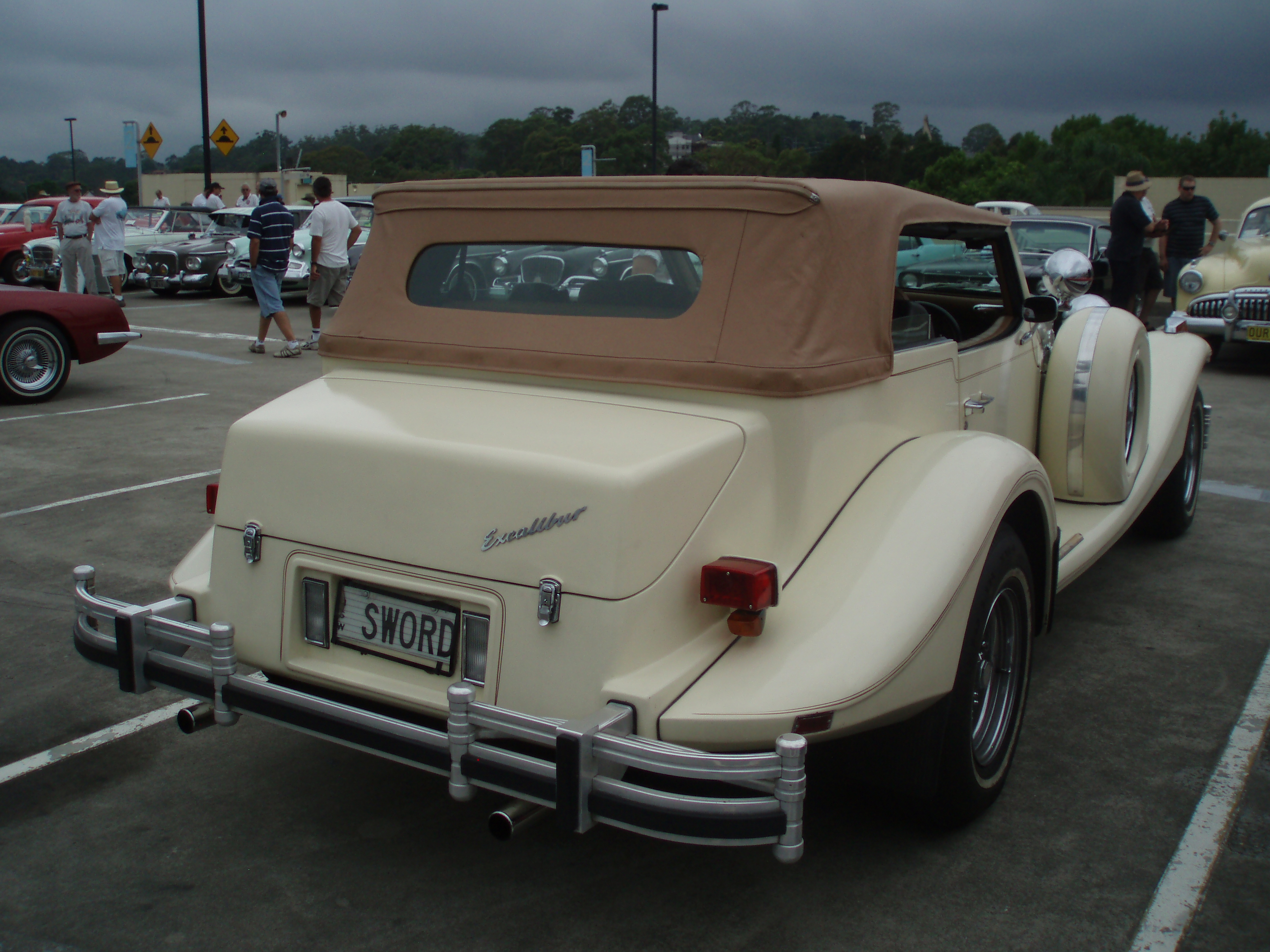 1984 Excalibur Series IV Phaeton. Taken at the 2011 New South Wales All American Day, held at Castle Towers Shopping Centre, Castle Hill, Sydney.